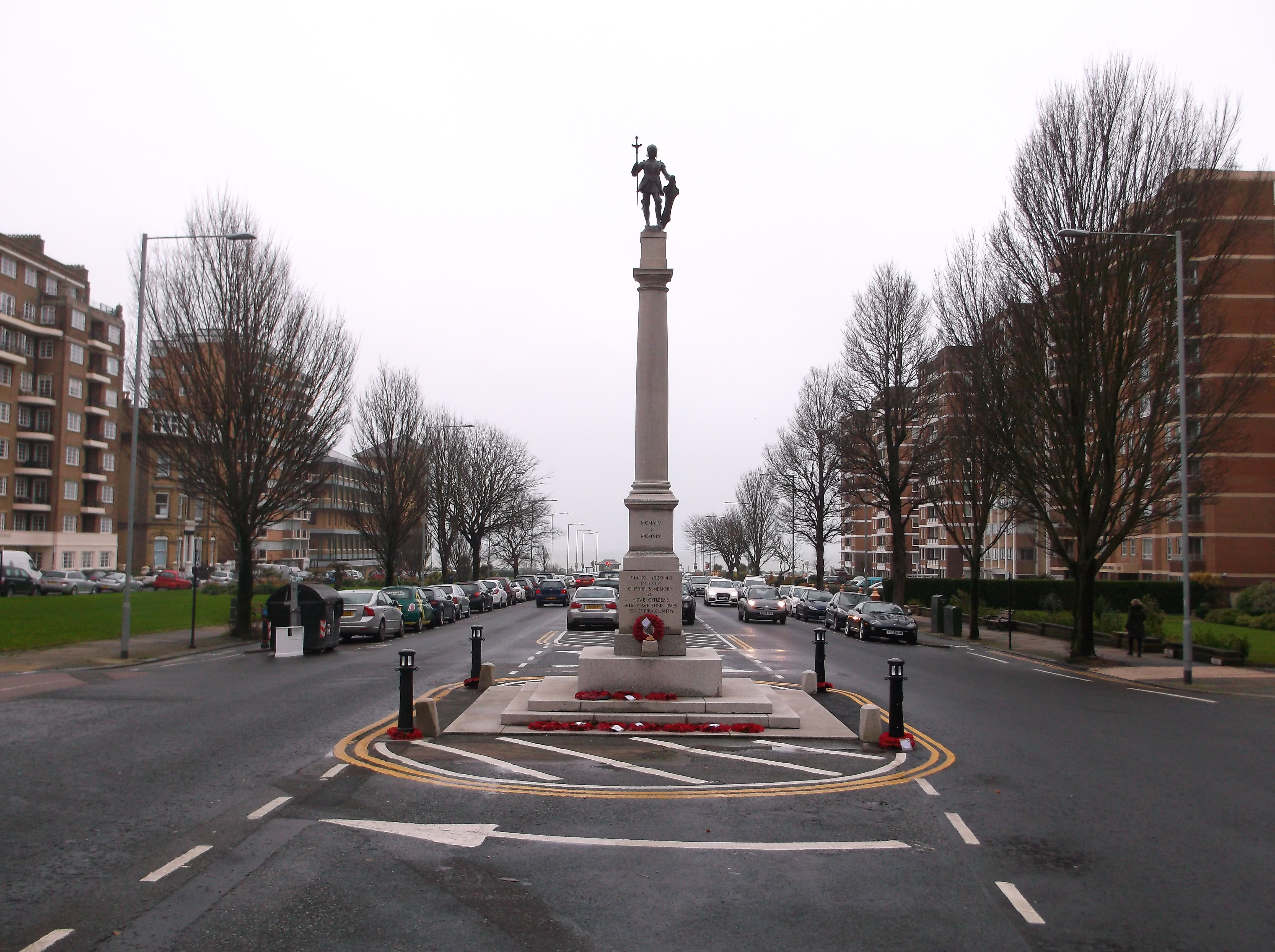 War memorial, Grand Avenue, Hove, East Sussex; statue of St George on a stone plinth, designed by Sir Edwin Lutyens